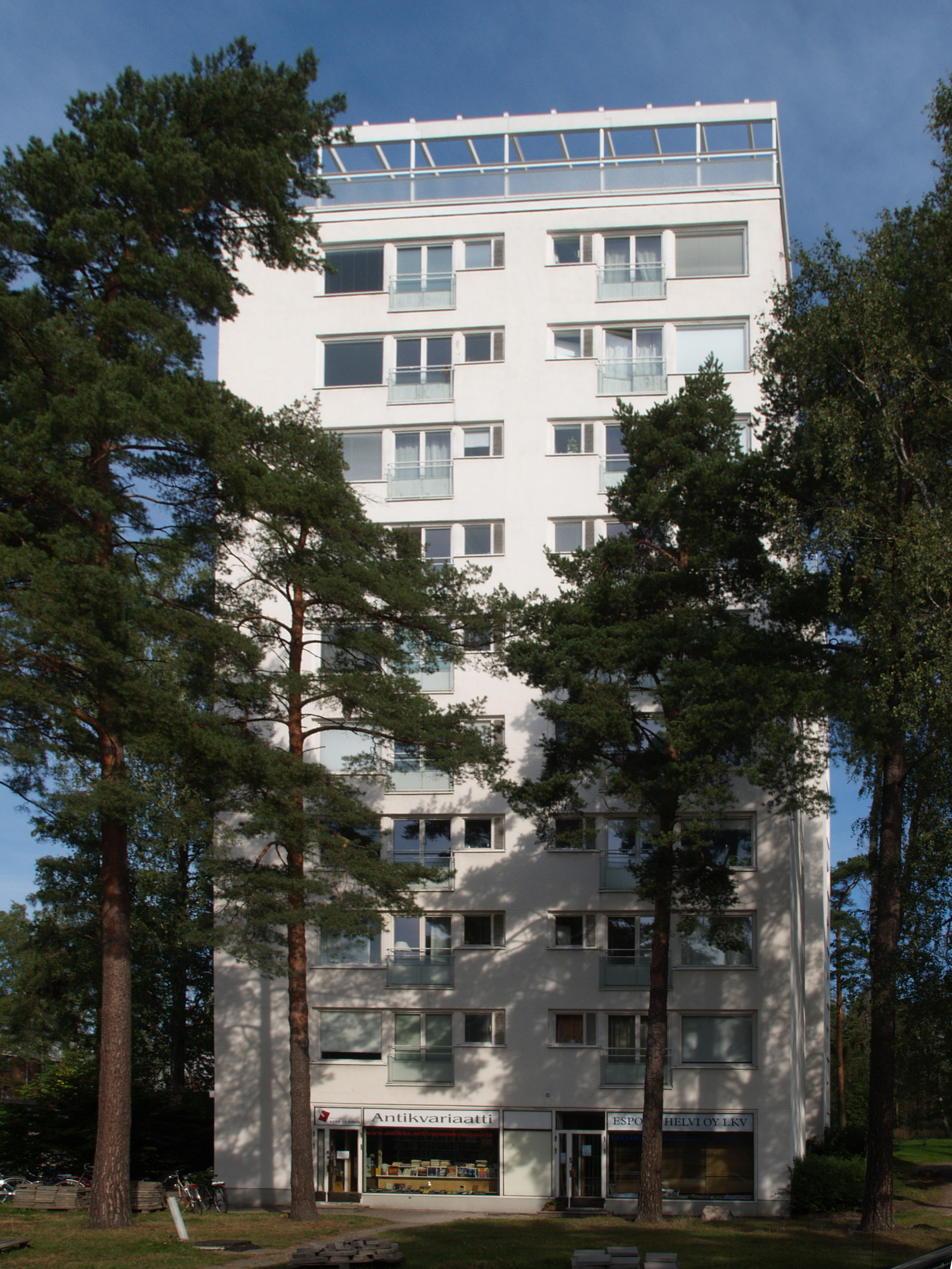 Mäntytorni, residential building in Tapiola, Espoo, Finland